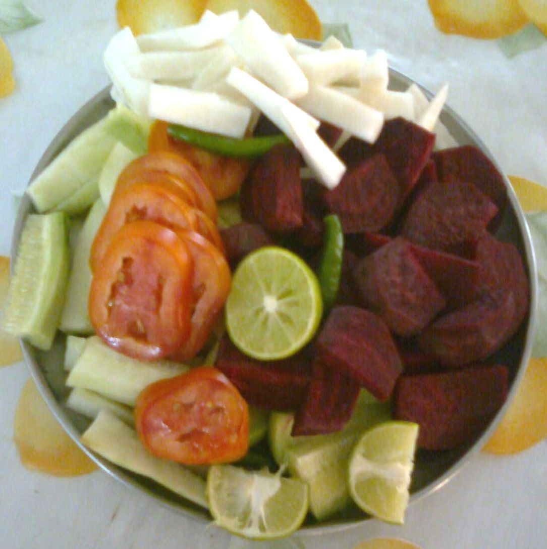 Indian Salad containing Lemon, Tomato, Radish, Beetroot, Cucumber and Green Chillies